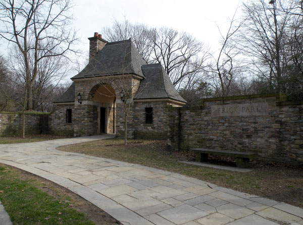 Picture of the Frick Park gate near the corner of Reynolds Street and S. Homewood Avenue in the Point Breeze neighborhood of Pittsburgh, Pennsylvania, on March 21, 2010.